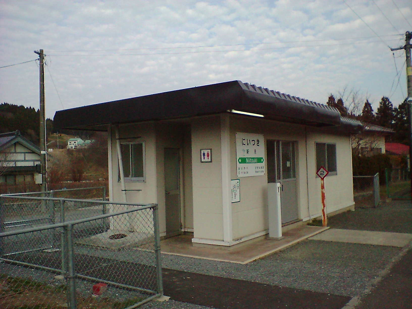 Niitsuki train station in Murone, Iwate